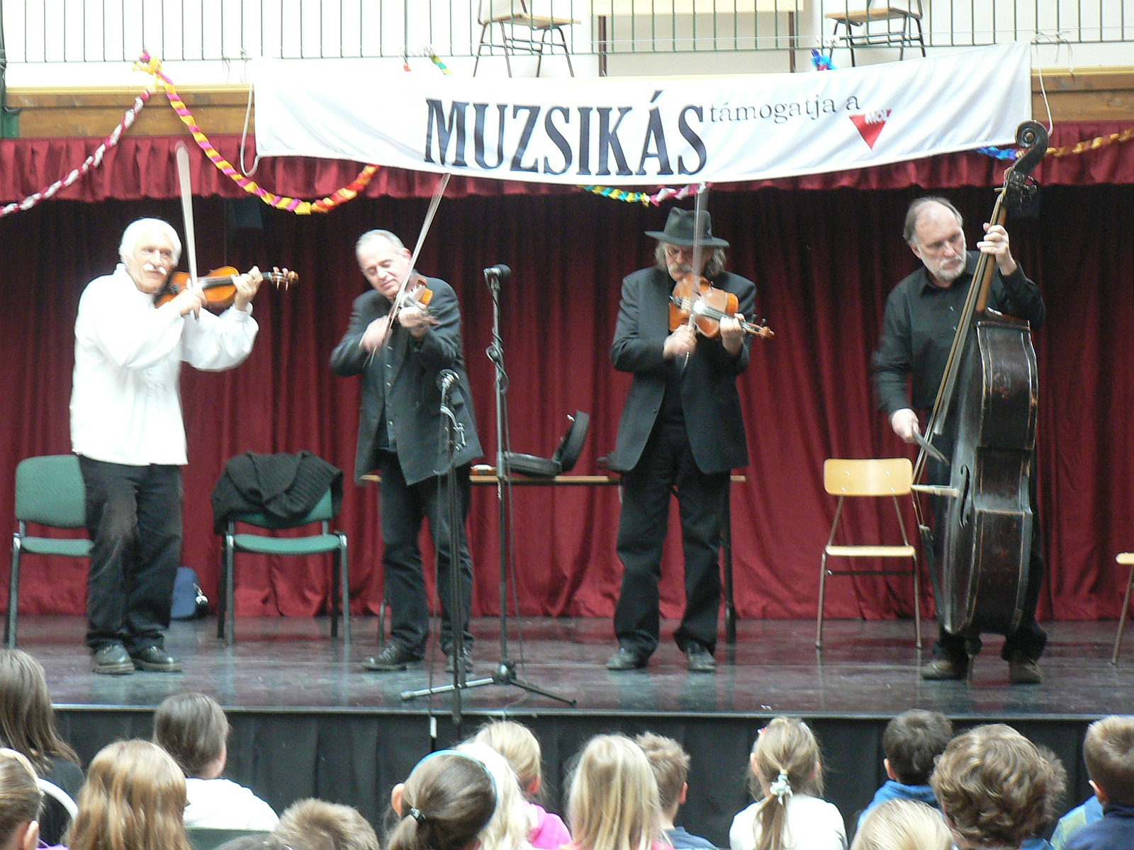 Muzsikás együttes (2012)